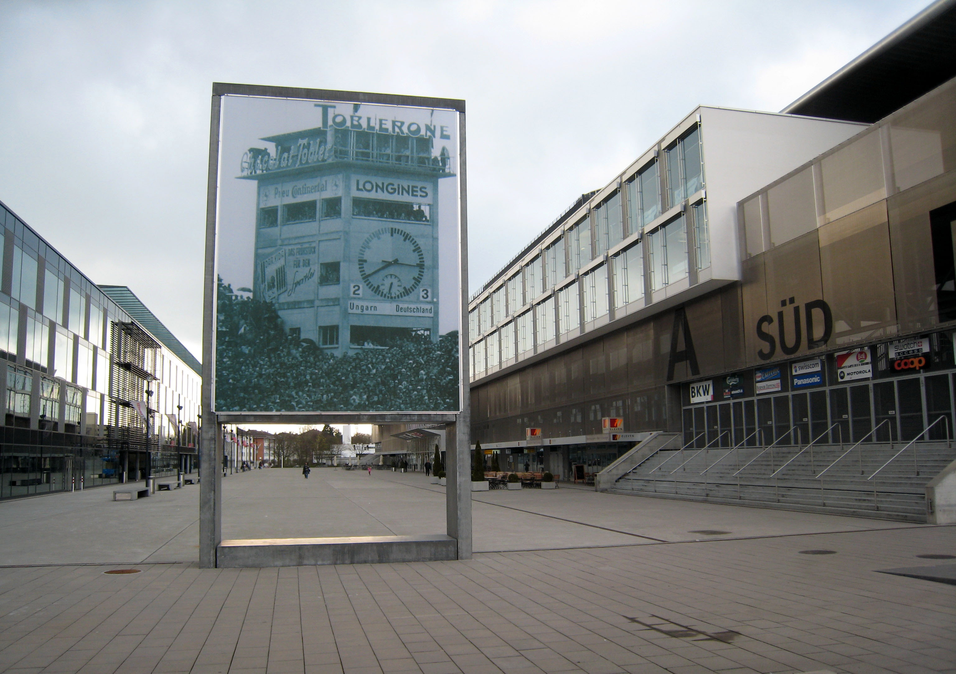 Stade de Suisse Wankdorf Bern, outside view. In the center, the backside of the restored 1954 FIFA World Cup Final match clock.